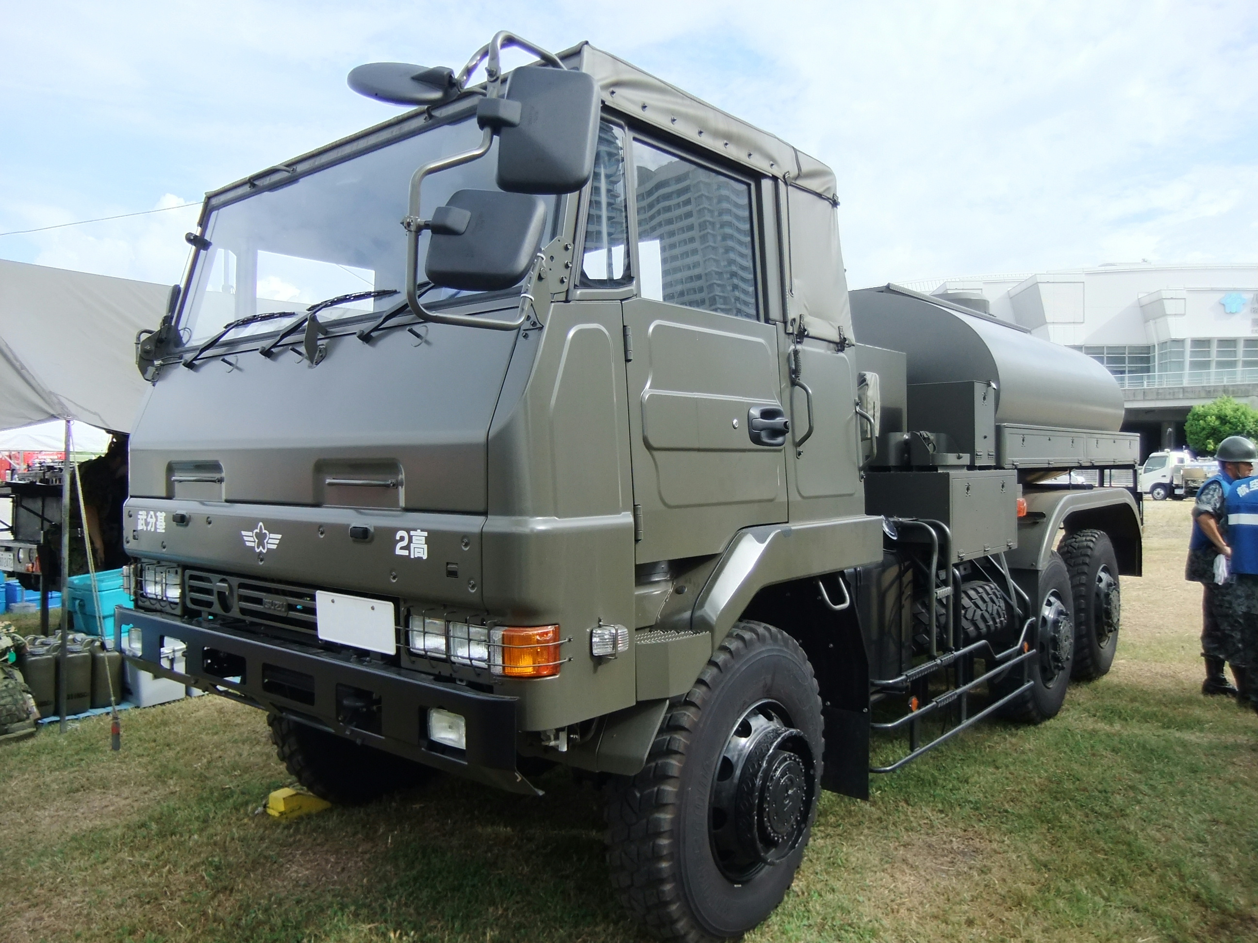 ISUZU, Japan Air Self-Defense Force (JASDF) Water tank truck